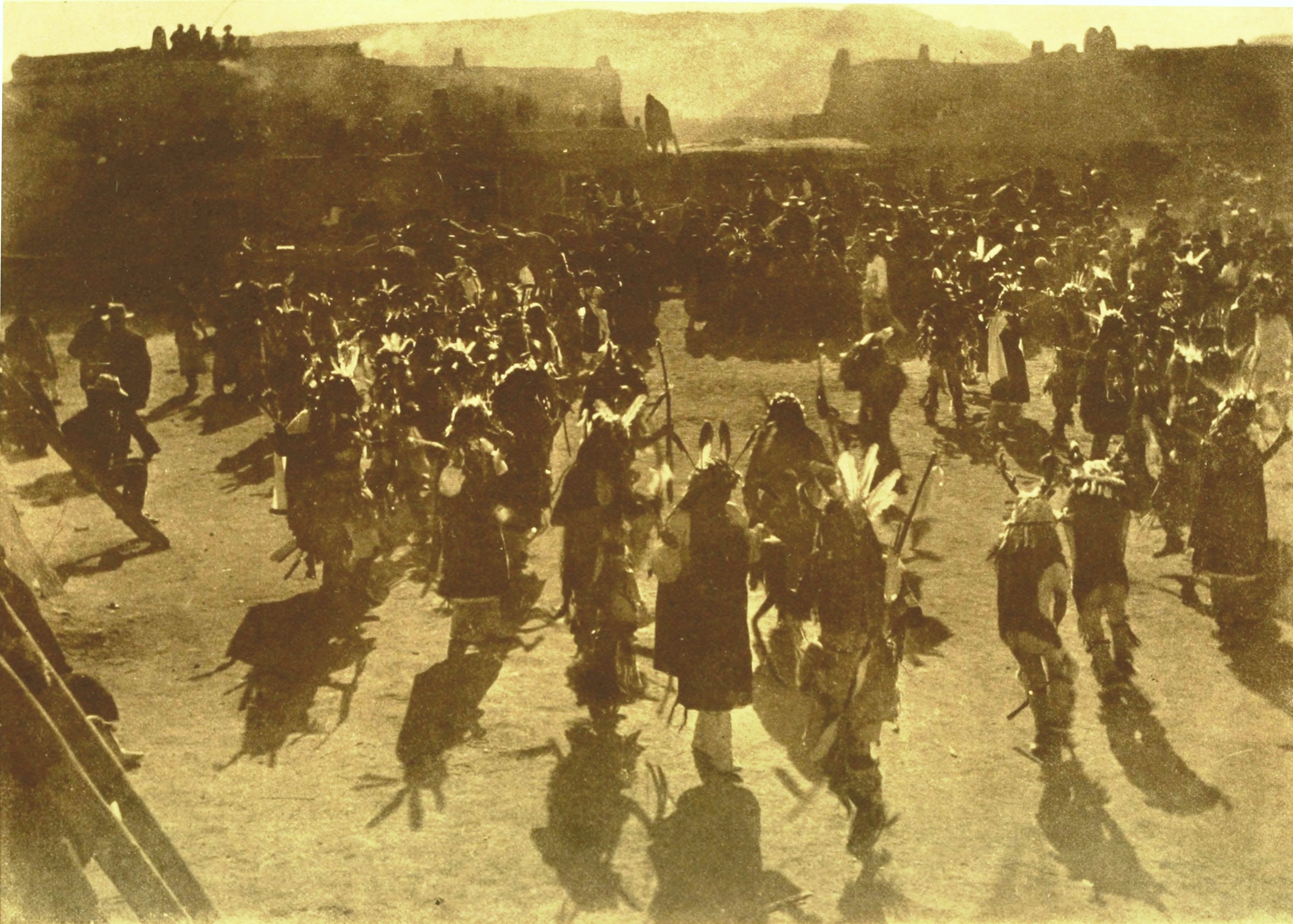 The buffalo dance is a prayer to the gods of the chase. Photo by E. W. Deming, San Ildefonso, 1893 Title: The American Museum journal Year: c1900-(1918) (c190s) Authors: American Museum of Natural History Subjects: Natural history Publisher: New York : American Museum of Natural History Text Appearing Before Image: ' Text Appearing After Image: '